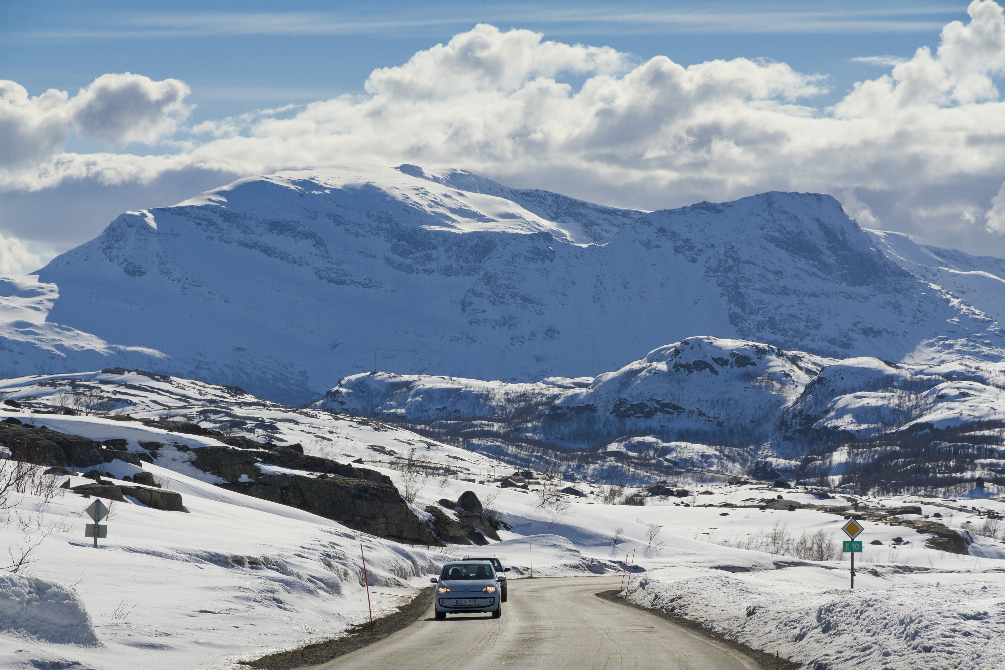 E10 road with Tøtta mountain in the background in Narvik, Nordland, Norway in 2015 April.